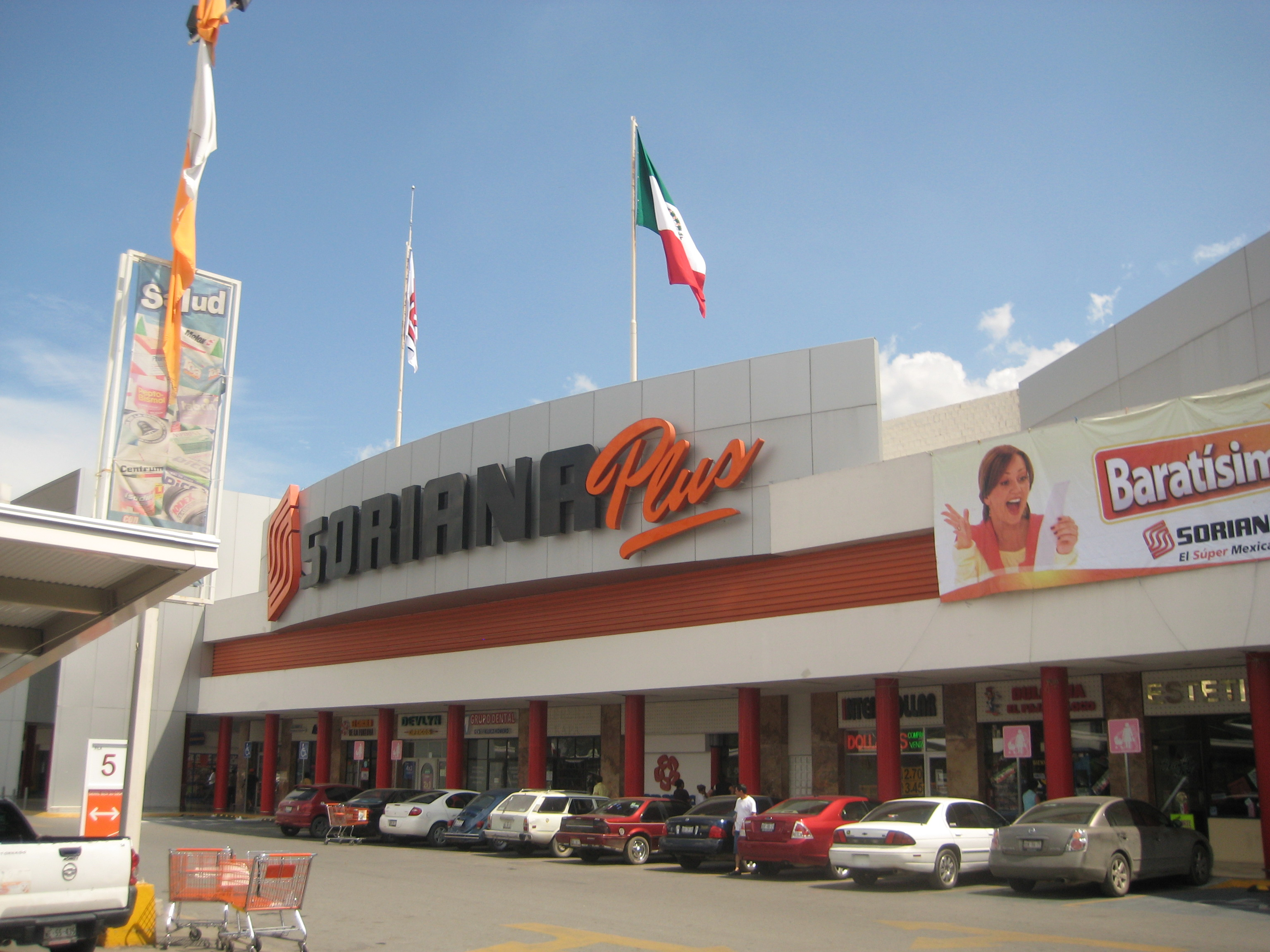 Soriana Plus, located at Ciudad Victoria, Tamaulipas